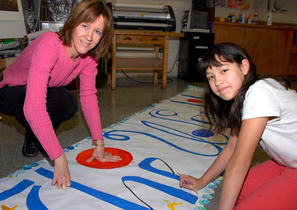 Garden School students have a variety of ways to develop talents and discover new interests. Academics, art, music, technology, sports or one or more of our many after school program options